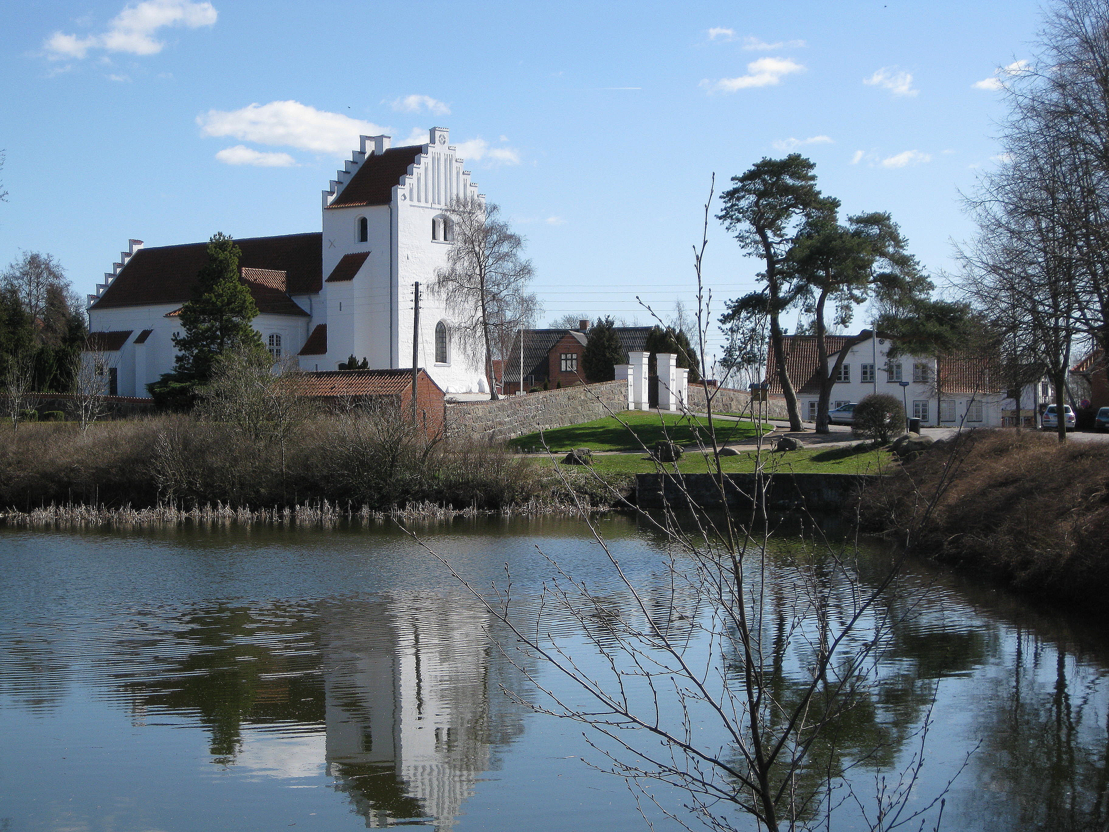 Village pond near the church "Ruds Vedby Kirke" in the small town Ruds Vedby. The town is located in West Zealand, Denmark.